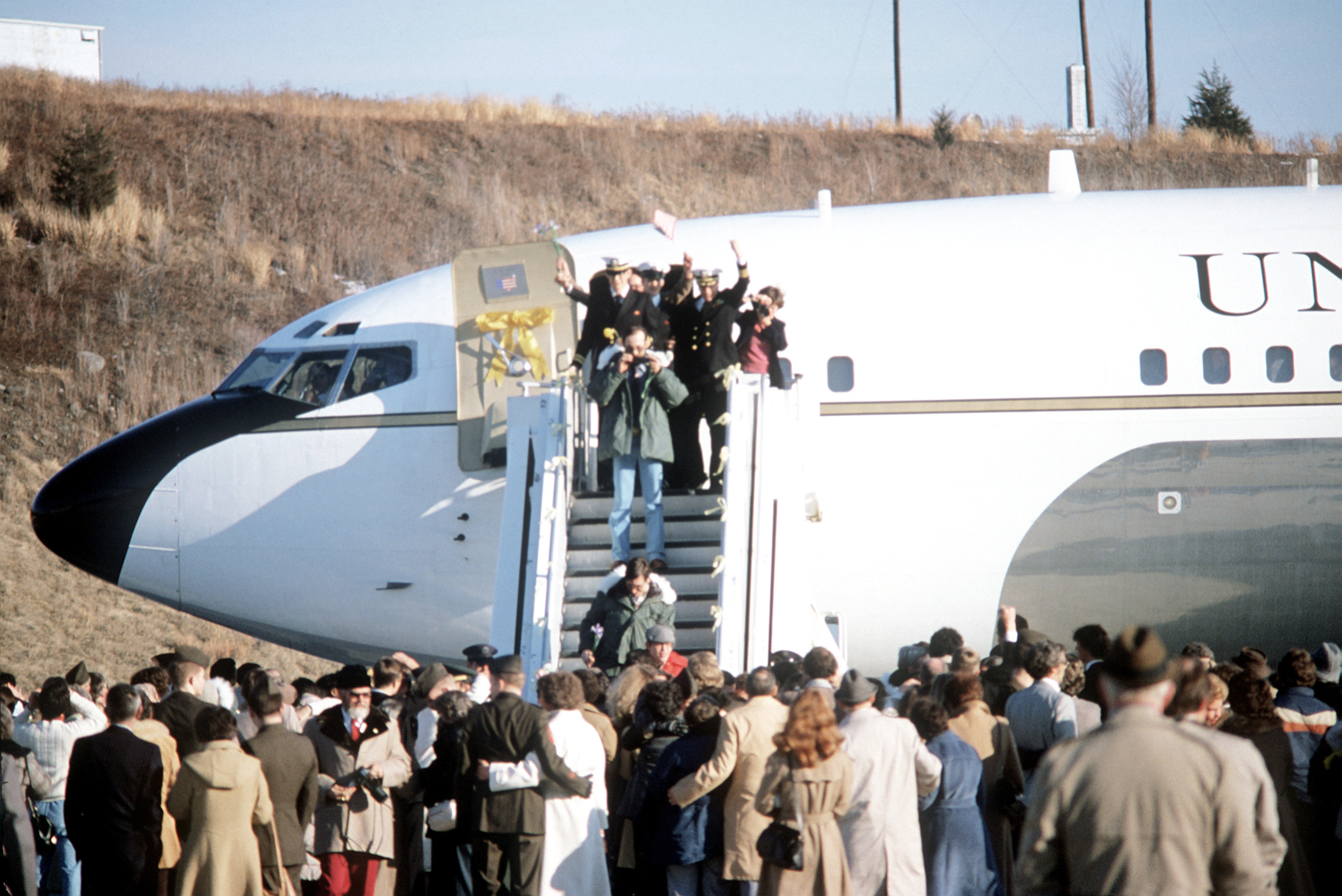 Families wait for the former hostages to disembark the plane. The former hostages will be on U.S. soil for the first time since their release from Iran. Location: STEWART FIELD, NEW YORK (NY) UNITED STATES OF AMERICA (USA)